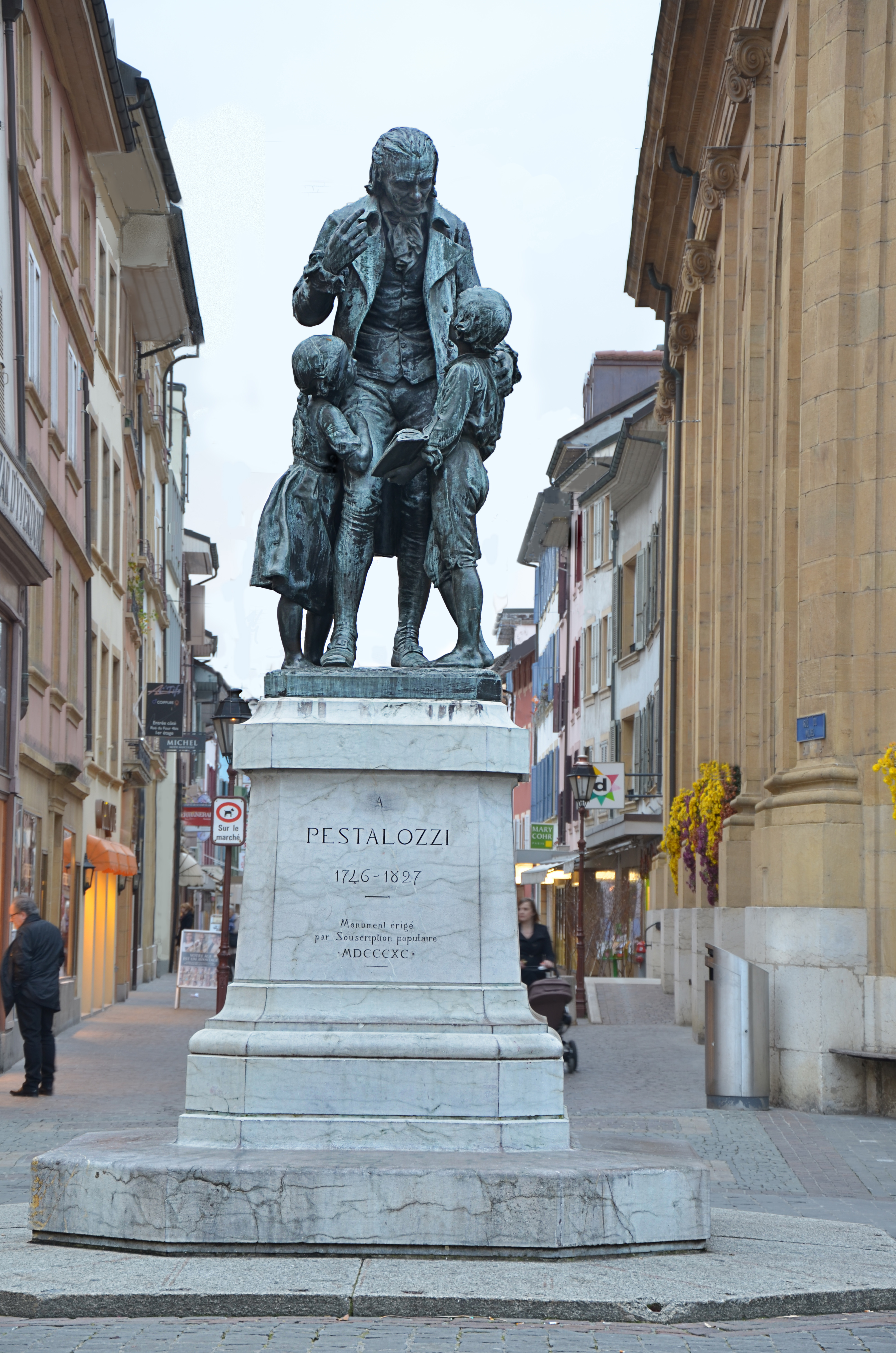 Statue Johann Heinrich Pestalozzi downtown Yverdon-les-Bains, by the Neuchâtel lake, Vaud, Switzerland.